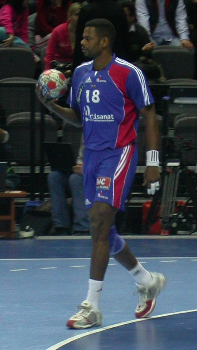 Joël Abati